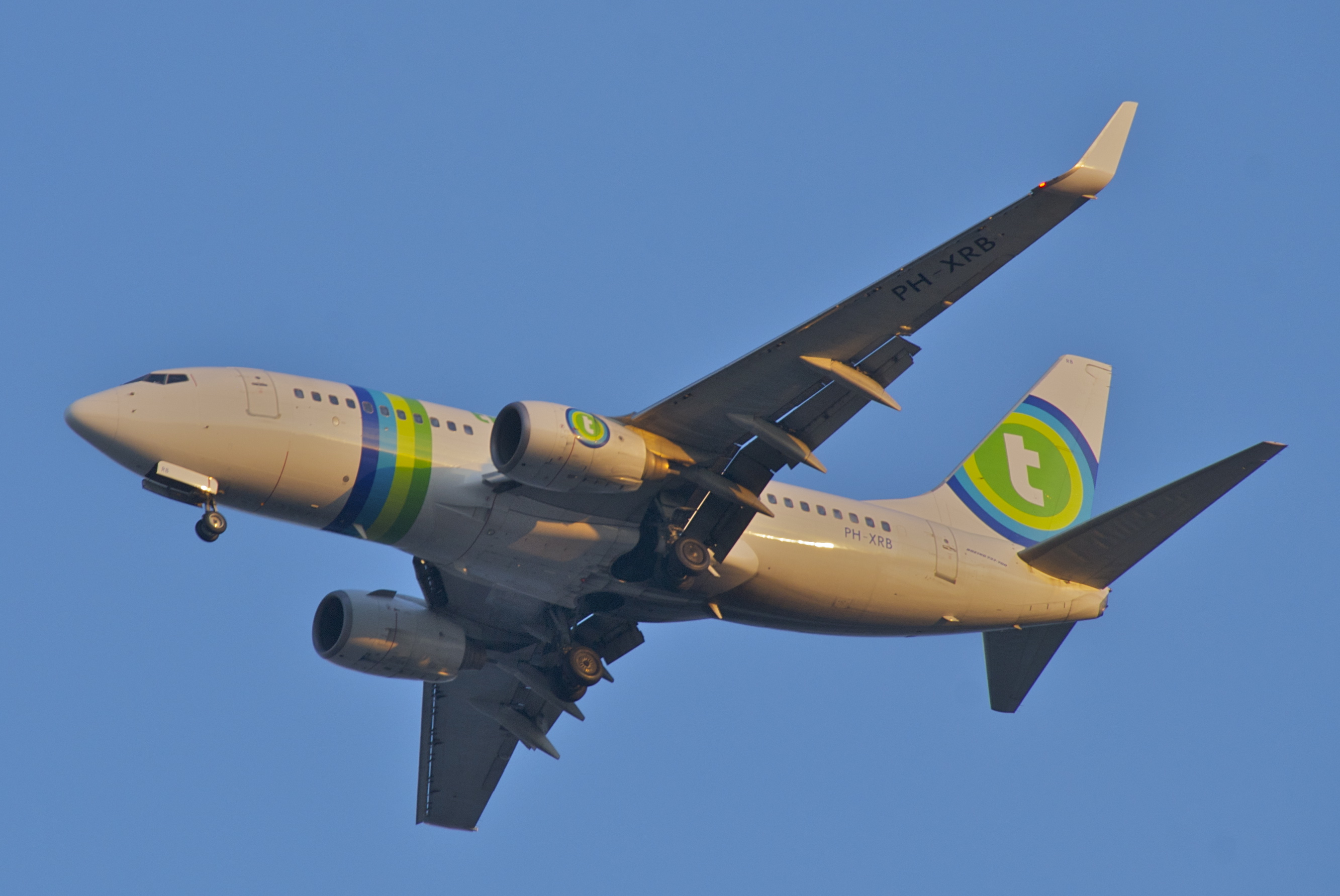 Arriving as TRA6259 from Rotterdam...